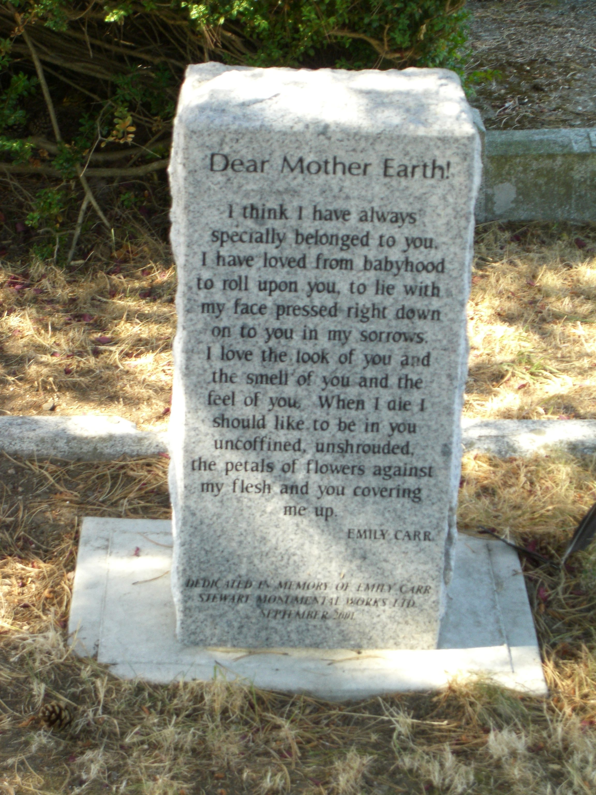 Dear Mother Earth monument at grave of Emily Carr, Ross Bay Cemetery, Victoria BC.